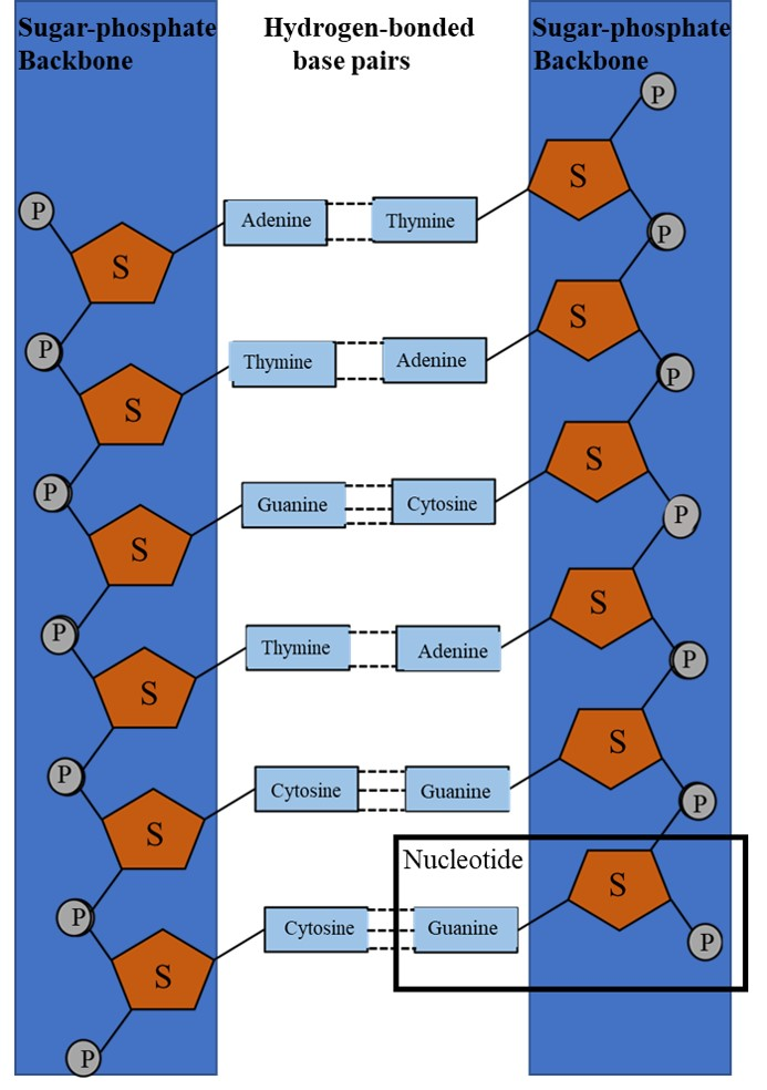 Diagram shows nucleotides bound together, forming a sugar-phosphate backbone. A double stranded DNA molecule is shown, with hydrogen bonds shown to link the bases of both backbones in the middle.